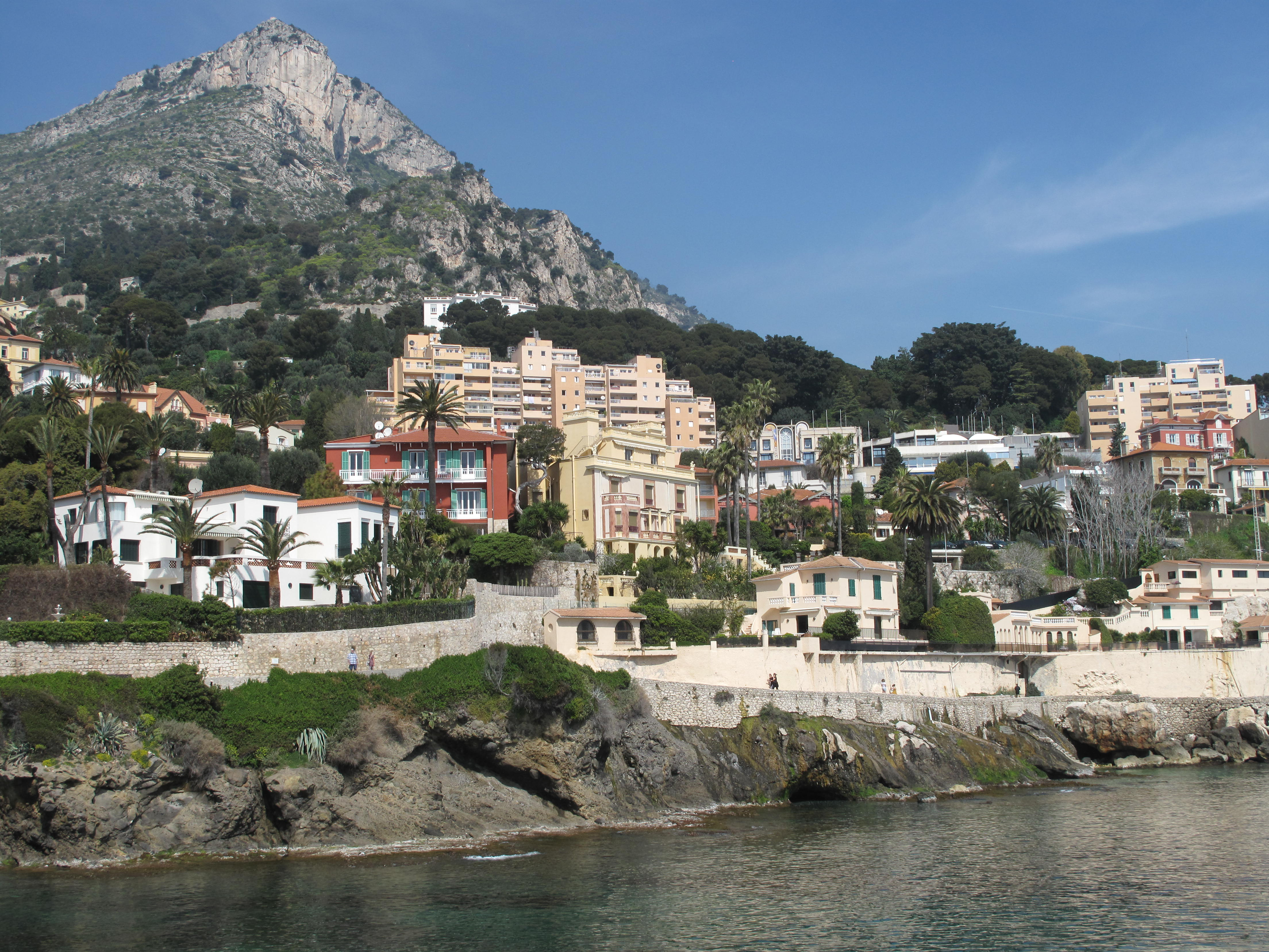 The littoral village of Cap d'Ail, Alpes-Maritimes, France